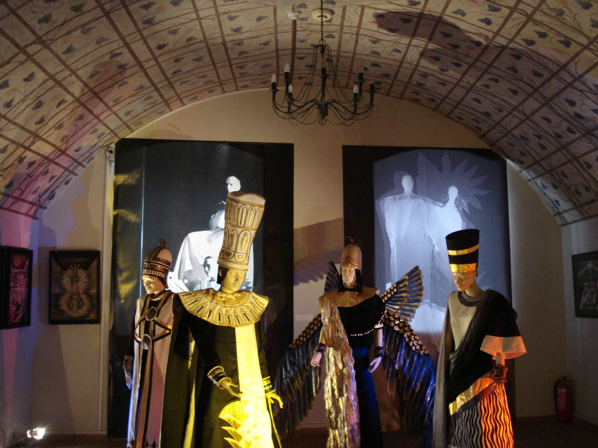 Exposition of the theatre costumes in the Lithuanian Theatre, Music, and Film Museum (Vilnius). 2008